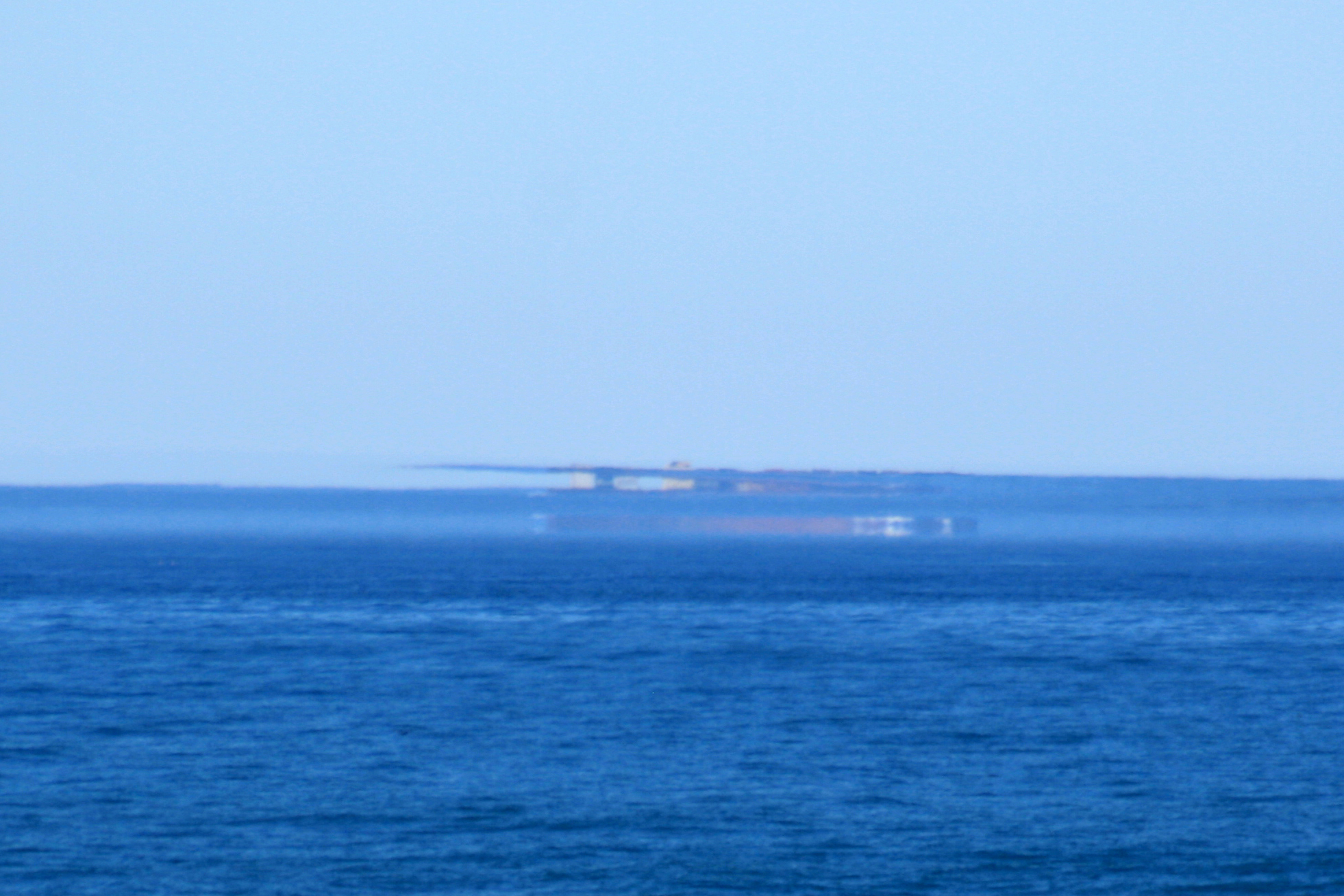 Superior mirage of a boat and superior mirage of the waves